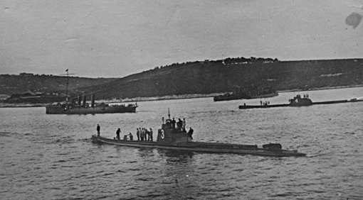 Austro-Hungarian submarine (SM U3) - copyright expired